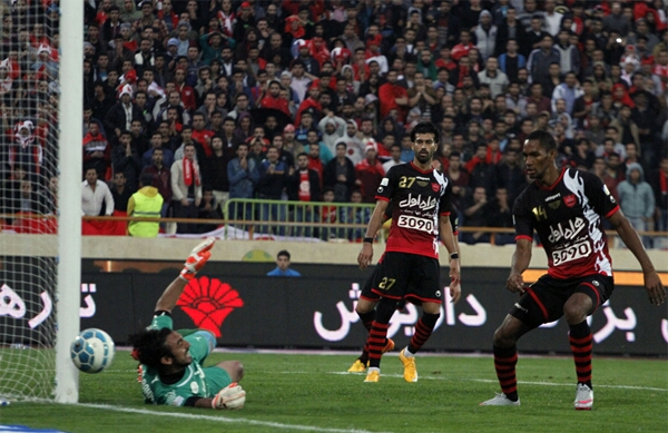 Jerry Bengtson